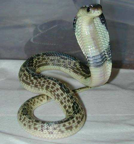 Indochinese spitting cobra (Naja sputatrix)